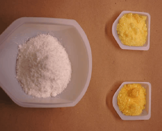 Left (white): amphetamine hydrochloride Right (yellow): 1-phenyl-2-nitrepropene, amphetamine precursor Seized in Mexico, analyzed by DEA